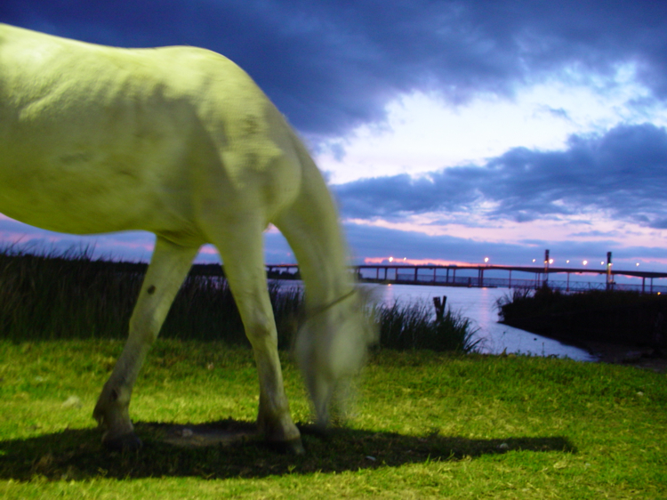 Horse grazing at sunset at Quadrado, bridges in the background